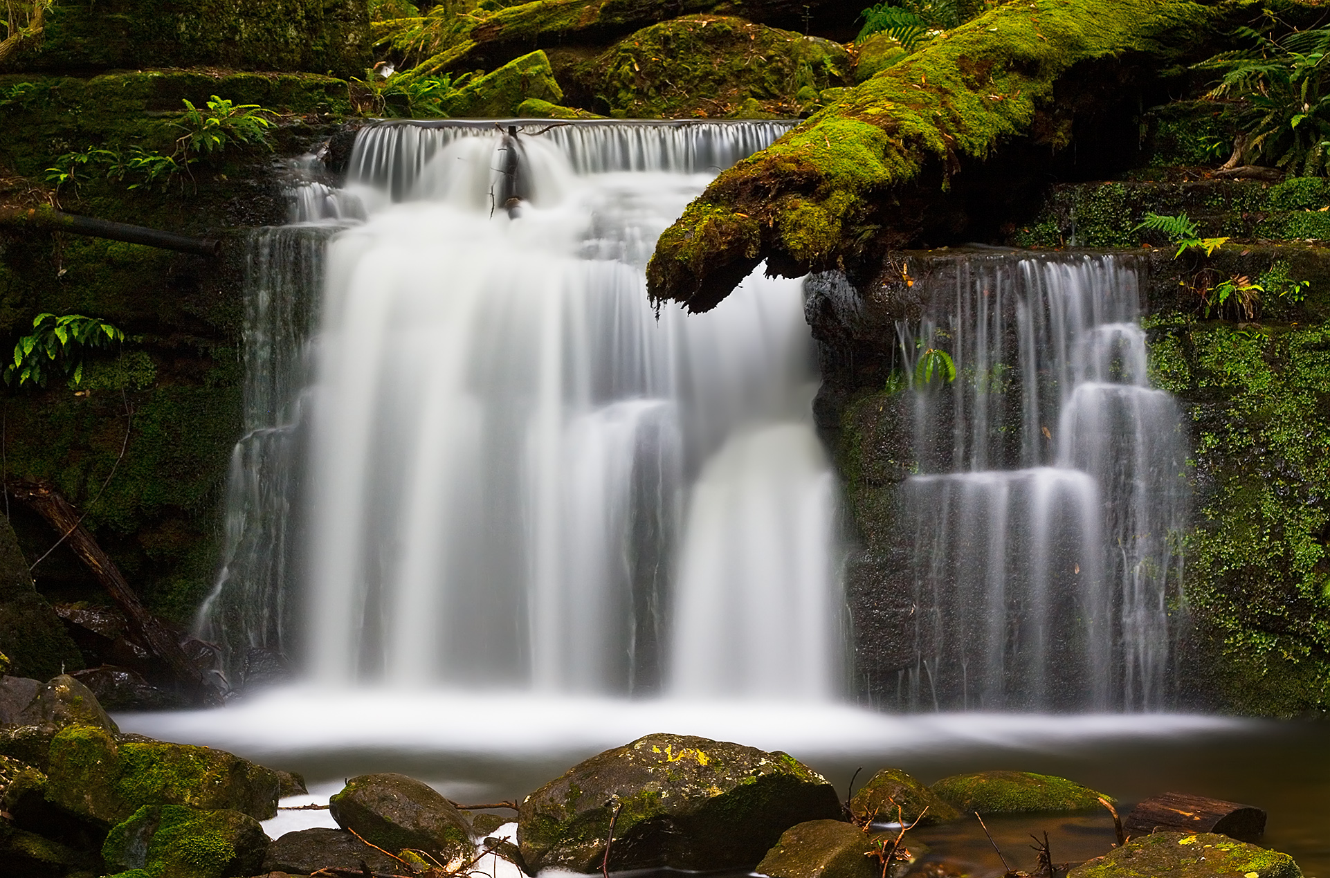 Strickland Falls, Tasmania, Australia Camera data Camera Canon EOS 400D Lens Canon EF 50mm f1.8 Filter 8x ND Filter and Circular Polarizer Focal length 50 mm Aperture f/10 Exposure time 30 s Sensivity ISO 100